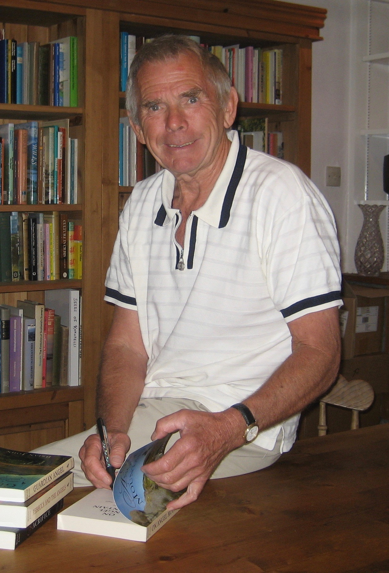 Welsh author Brian John, pictured during one of his book signing sessions